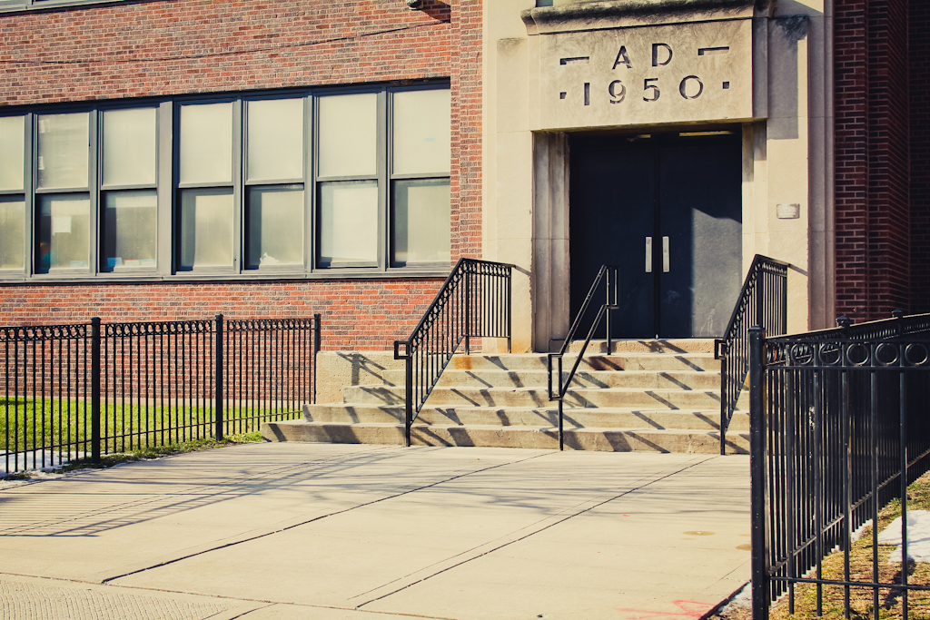 This is a picture of the main entrance to the Urban Prep Bronzeville Campus located within the Williams Multiplex in Chicago.